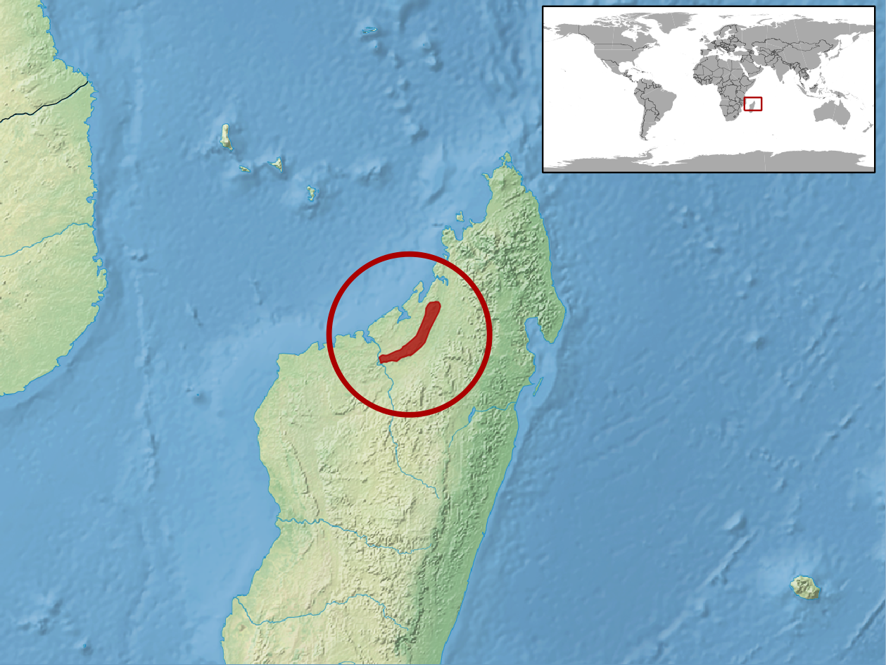 geographic distribution of Sirenoscincus yamagishi syn Sirenoscincus yamagishii